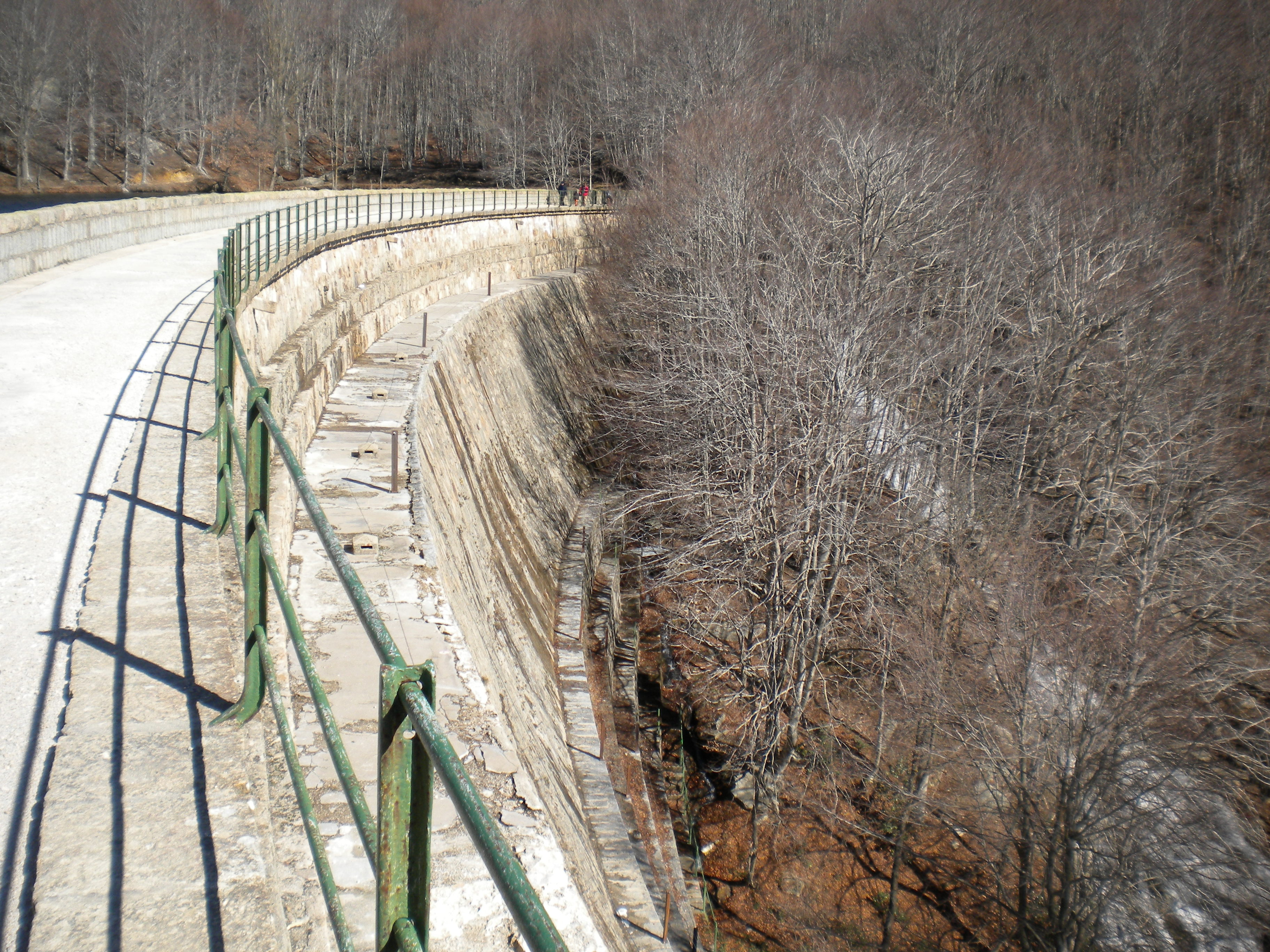 Santa Fe's embankment dam, in Montseny mountains (Catalonia).